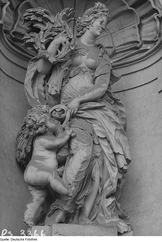 Original image description from the Deutsche Fotothek Dresden. Zwinger, Kronentor. Ceres (um 1714/1715; B. Permoser)